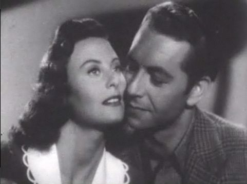 Screenshot of Michèle Morgan and Paul Henreid from the trailer for the film Joan of Paris